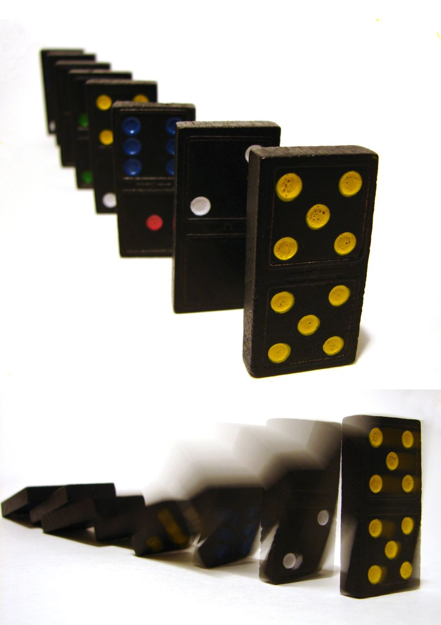 Original caption: I decided to see if I could catch the motion of Dominos falling. It took me ages to get the timing right